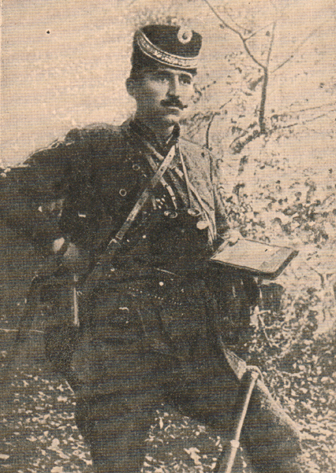 Serbian Chetnik Voivode Kosta Vojinovic